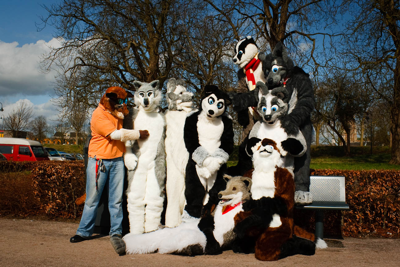 Dutch Fursuiters in Gorichem during a furwalk.